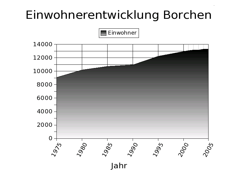 Borchen: Population Statistics